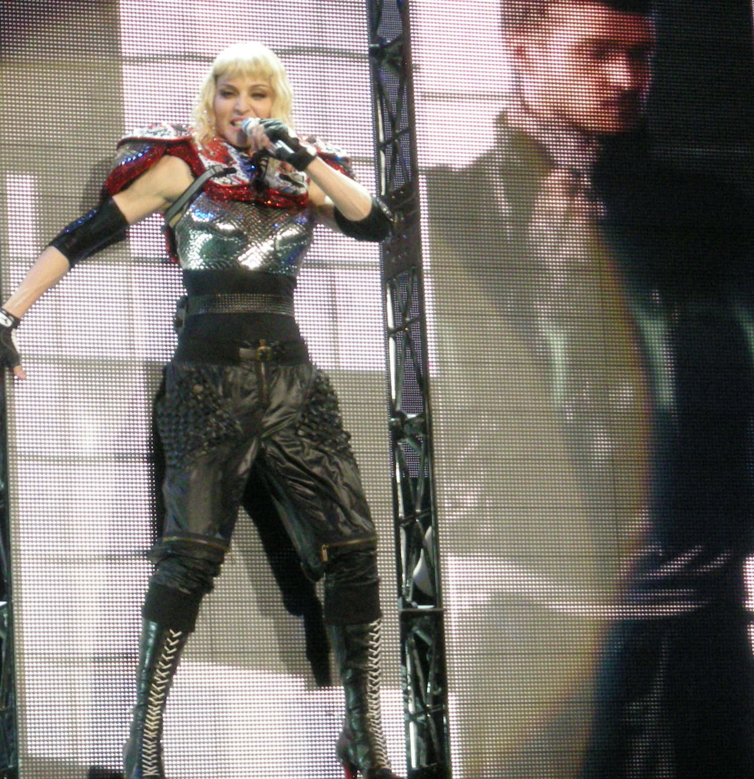 Madonna - Amsterdam ArenA - September 2, 2008